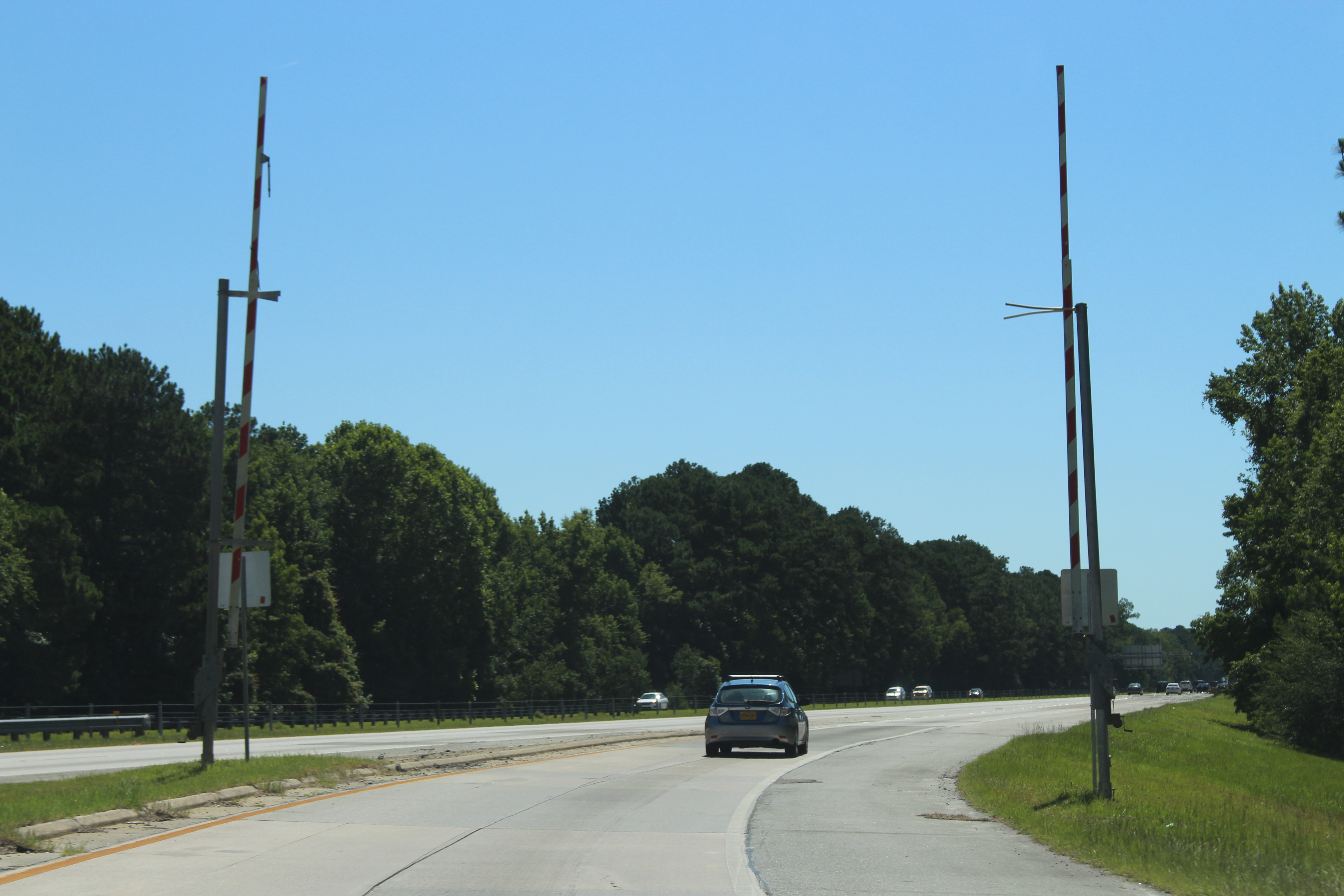 Georgia I16eb on ramp from I95nb contra-flow gates, Chatham County, Georgia